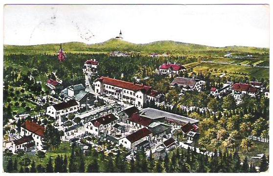 Postcard of Radenci